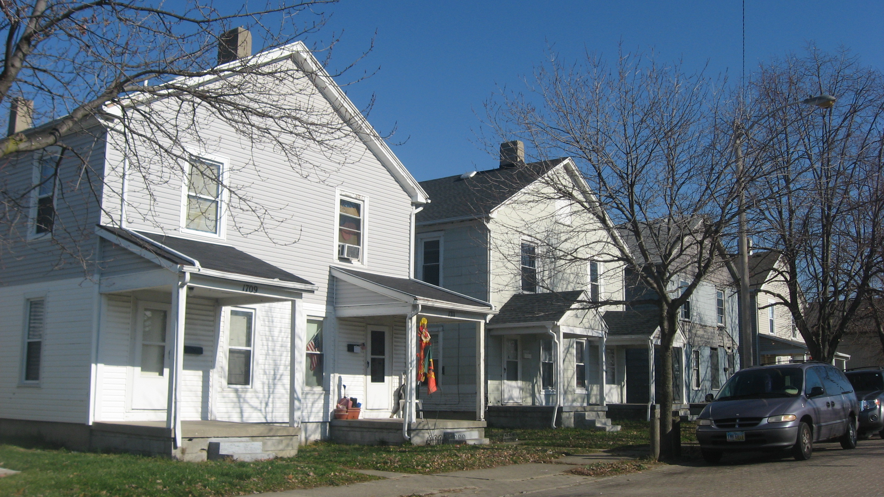 Houses on the northern side of the 1700 block of Mack Avenue in Dayton, Ohio, United States. This block is part of the Kossuth Colony Historic District, a historic district that is listed on the National Register of Historic Places.